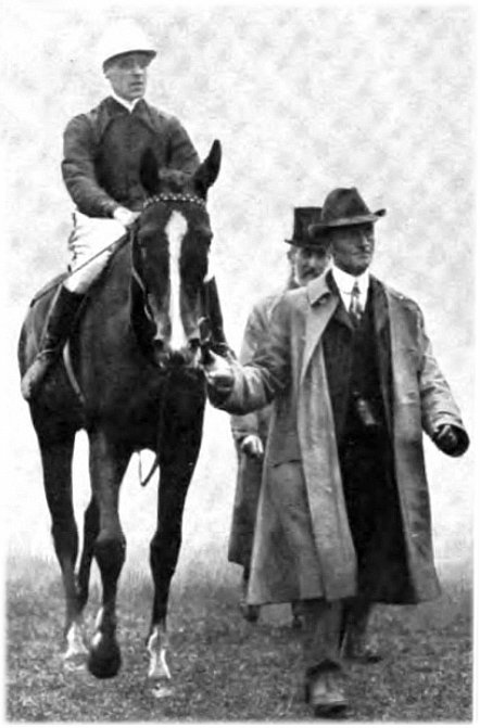 Thoroughbred filly, Mirska, at the 1912 Epsom Oaks. She unexpectedly defeated Tagalie.